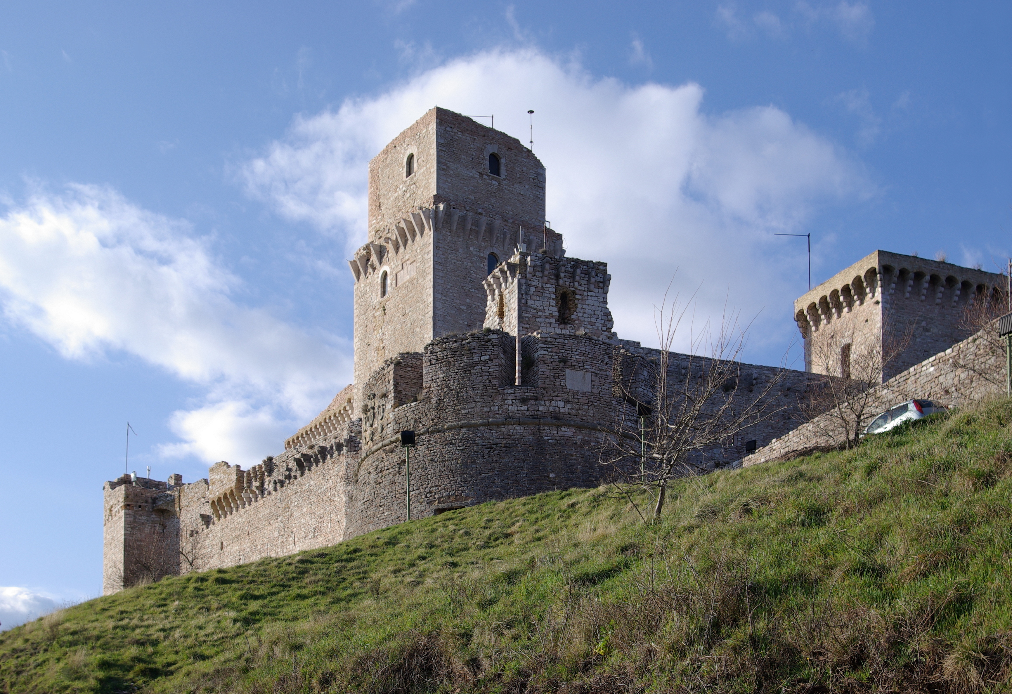 Assisi, Rocca Maggiore